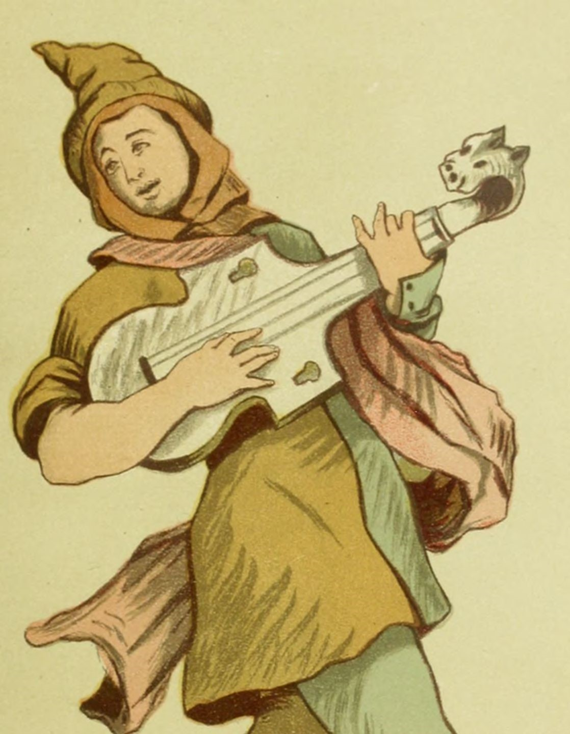 19th century drawing of an entertainer playing a citole, from the book "English costume and fashion from the conquest to the regency (A.D. 1070-1820)". The caption put this costume in the reign of Edward I, with a date 1307. The 14th century original that inspired and give the information for this was given as "British Museum Reg. 11B VII." It might also have been Reg. 44B VII. Neither comes up on the database at the time of this upload. Published by W. Clowes, 1884. The artist for this, Lewis Wingfield, took to designing costumes for the theatre, after abandoning painting, and was responsible for the dressing of Shakespearean revivals.